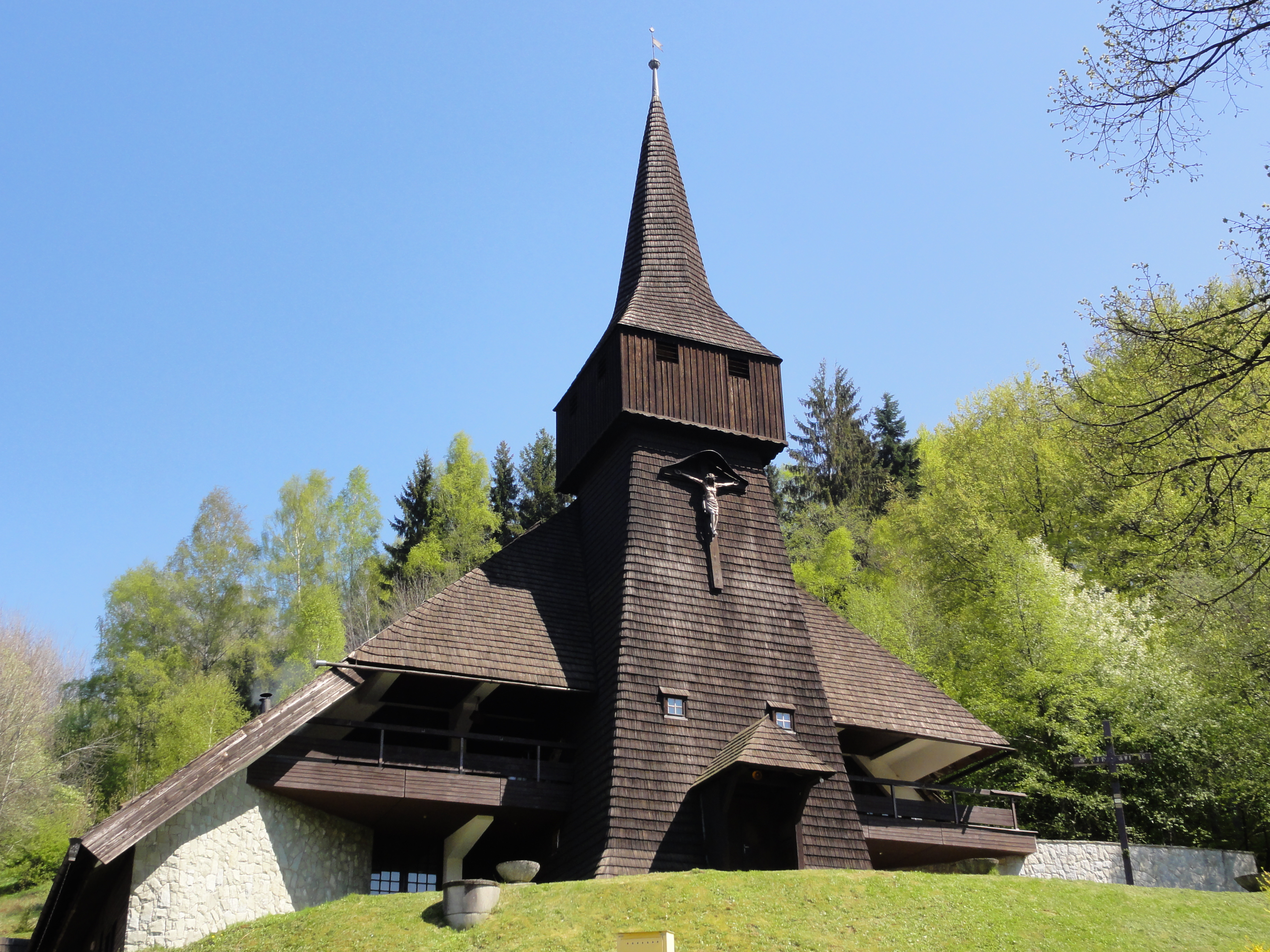 Church of Finding of the Holy Cross in Wisla-Labajów